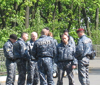 Ukrainian special police forces Berkut